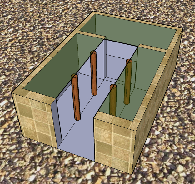 Classic ca. 1000 BC four-room house (animals kept on lower floor, human quarters above) found at various archaeological sites, and often associated with the early Israelites.